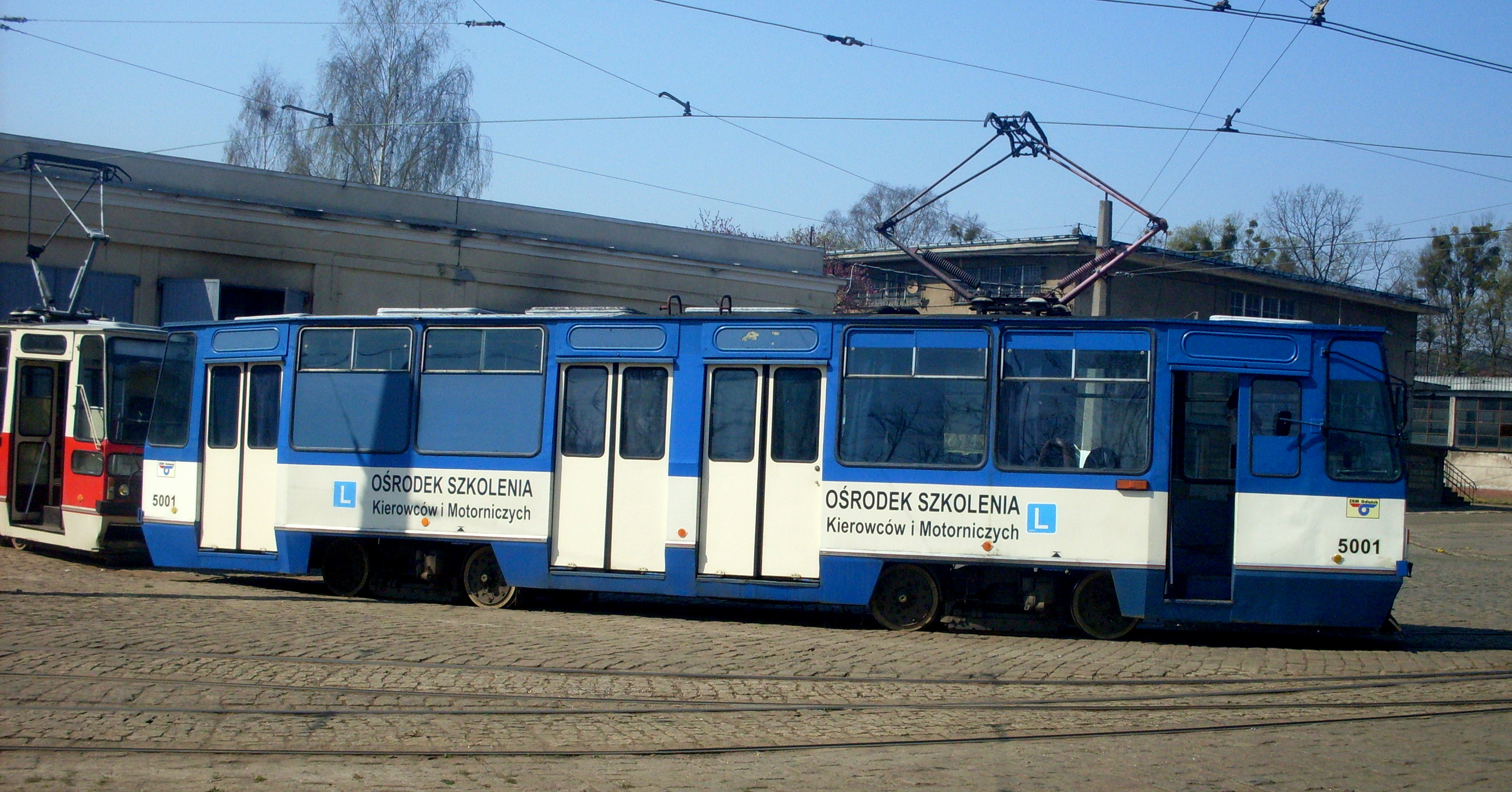 Driving school tram at depot in Gdańsk-Wrzeszcz. On the coachwork one wrote: The centre the instruction of drivers and tram drivers.